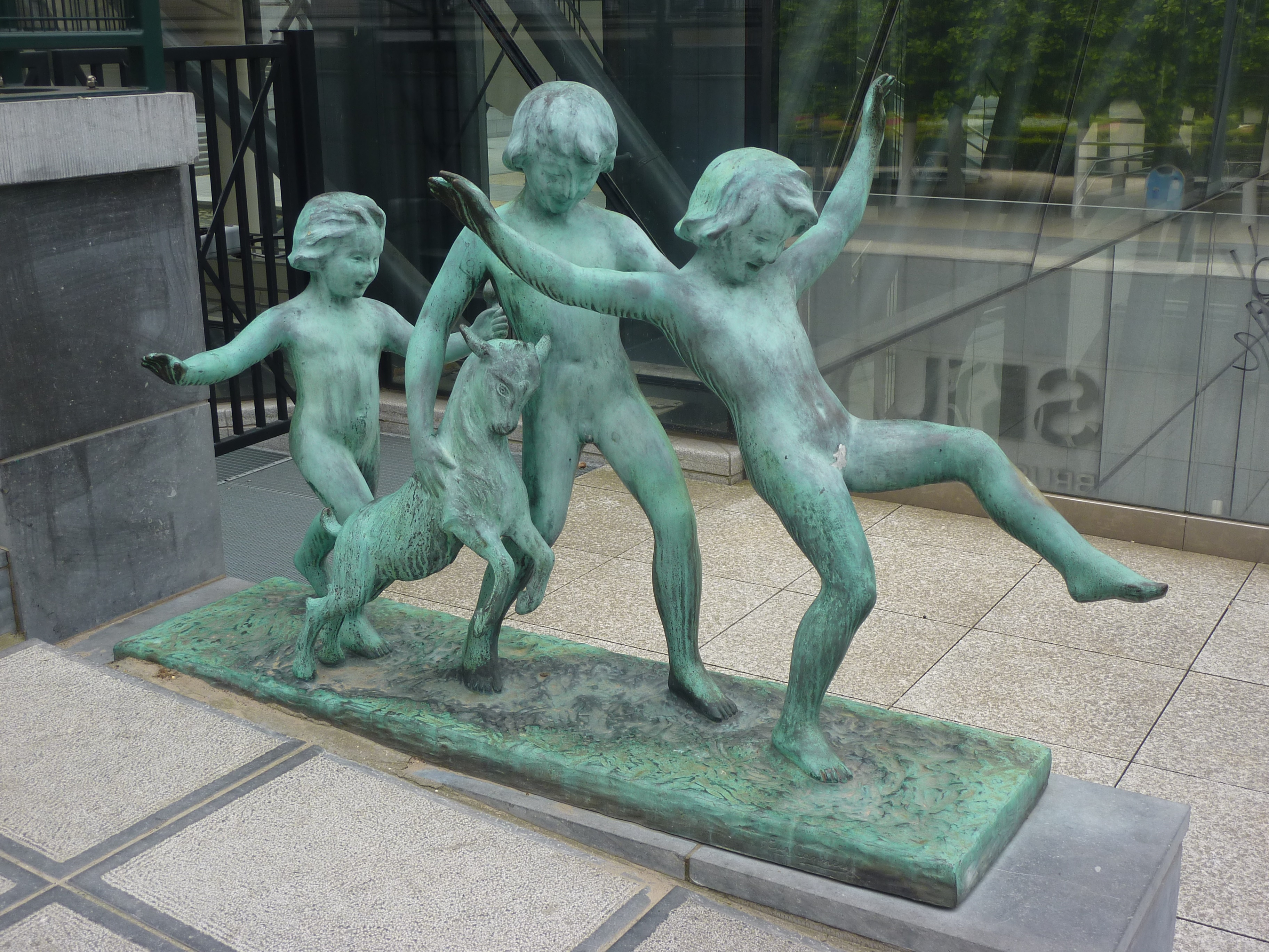 Mont des Arts